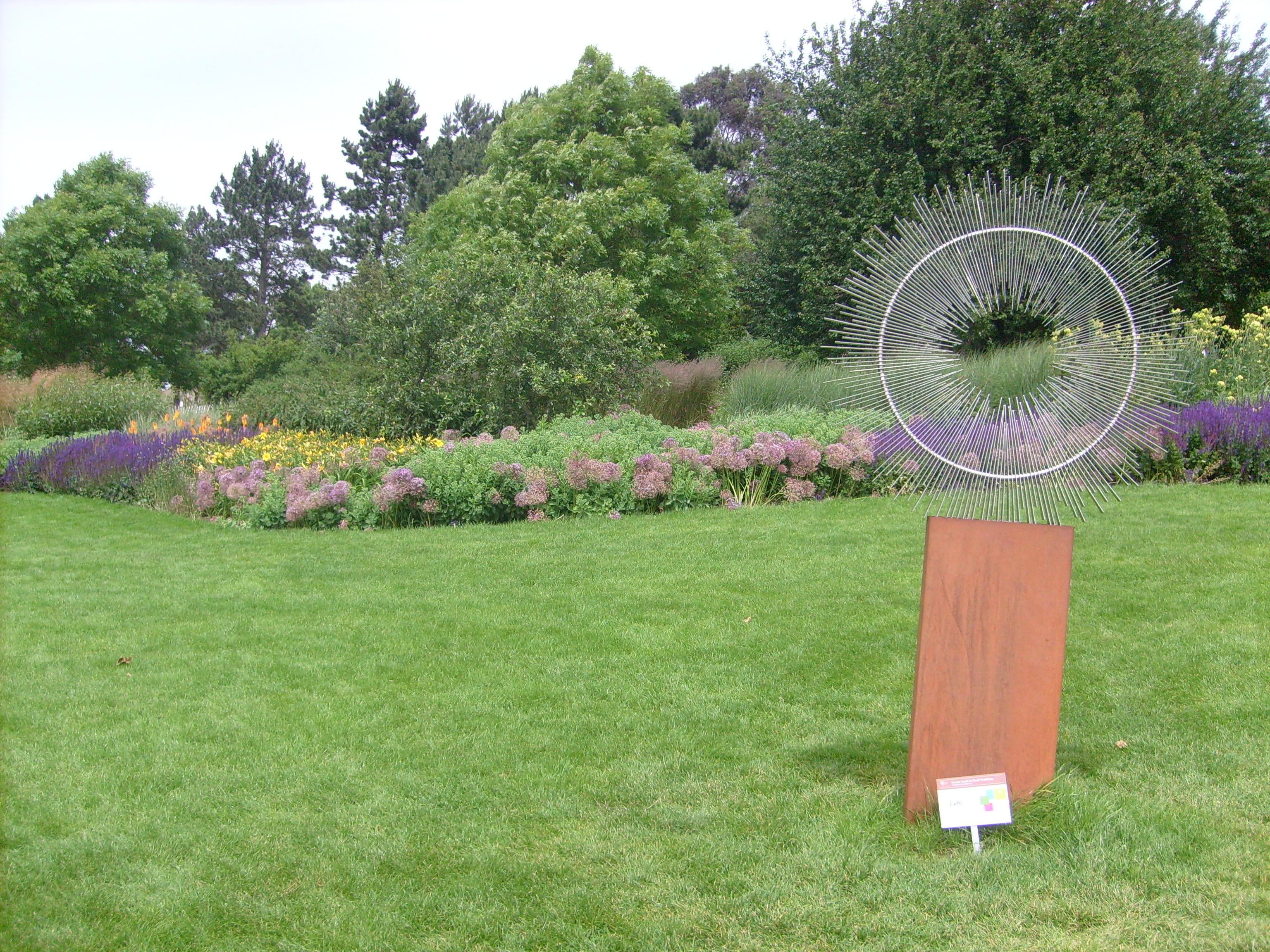 Plants on Clove Hill at RHS Hyde Hall. The sculpture to the right of the photograph is called "Lights"